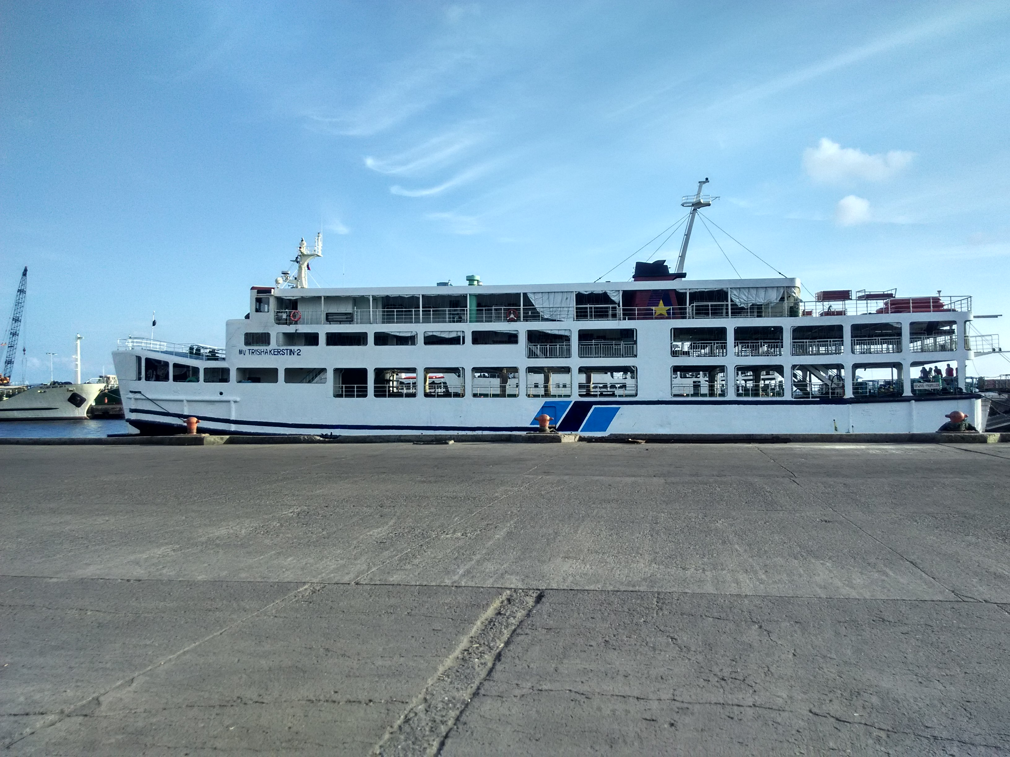 MV Trisha Kerstin 2 at Zamboanga International Seaport, Filipino Ship Enthusiast Coalition